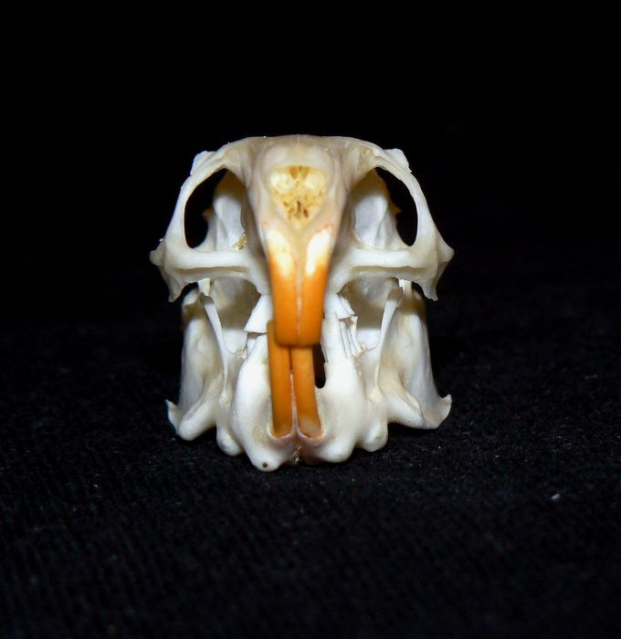 The skull of O. degus